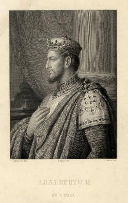 Depiction of King Adalbert of Italy.